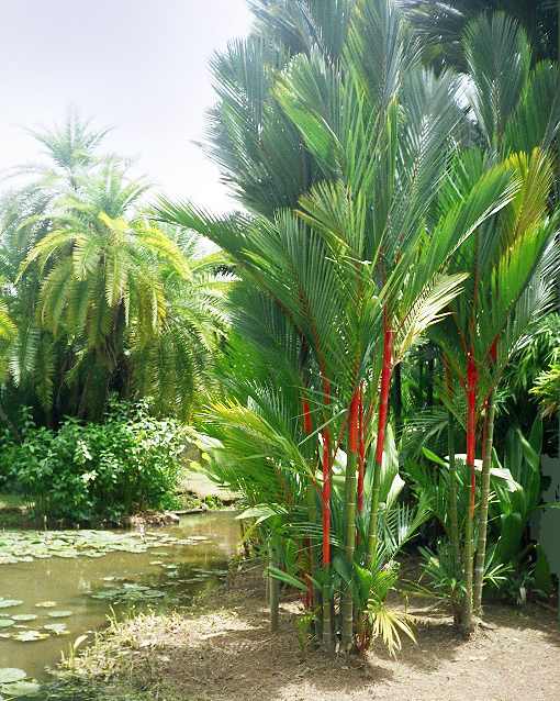 Own work